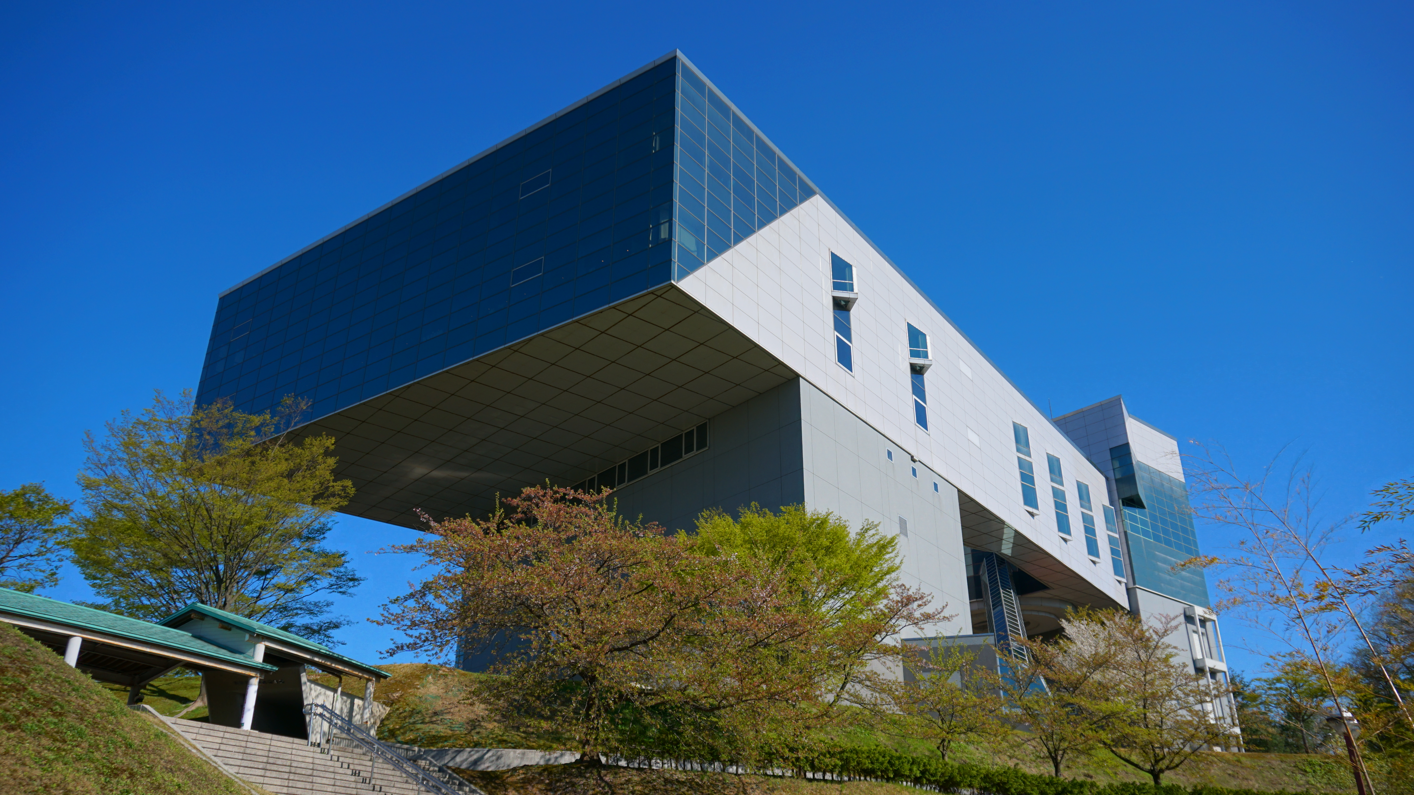 exterior of the Akita Museum of Modern Art (Yokote, Akita, Japan)